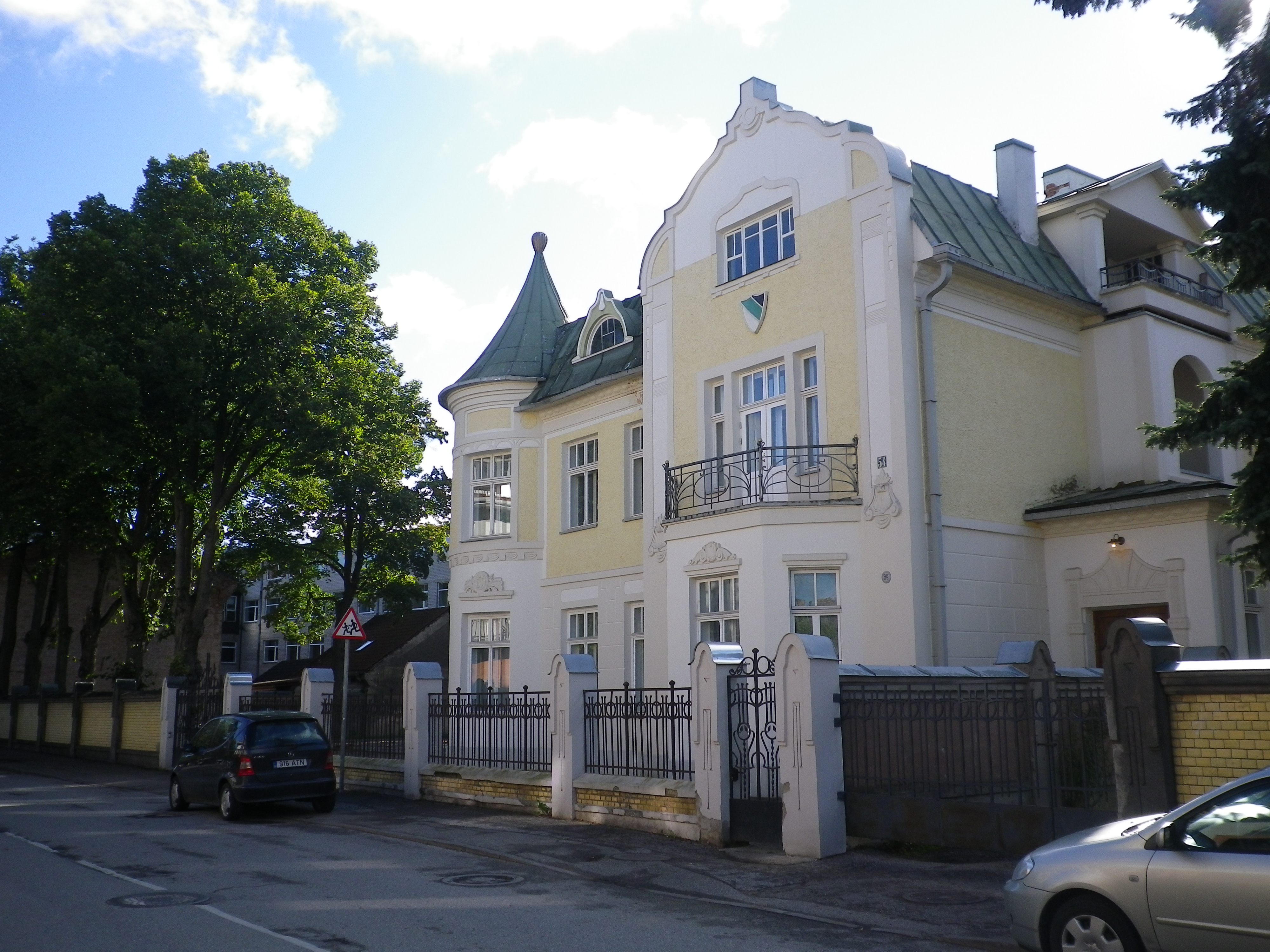 54 Vanemuise St, Tartu